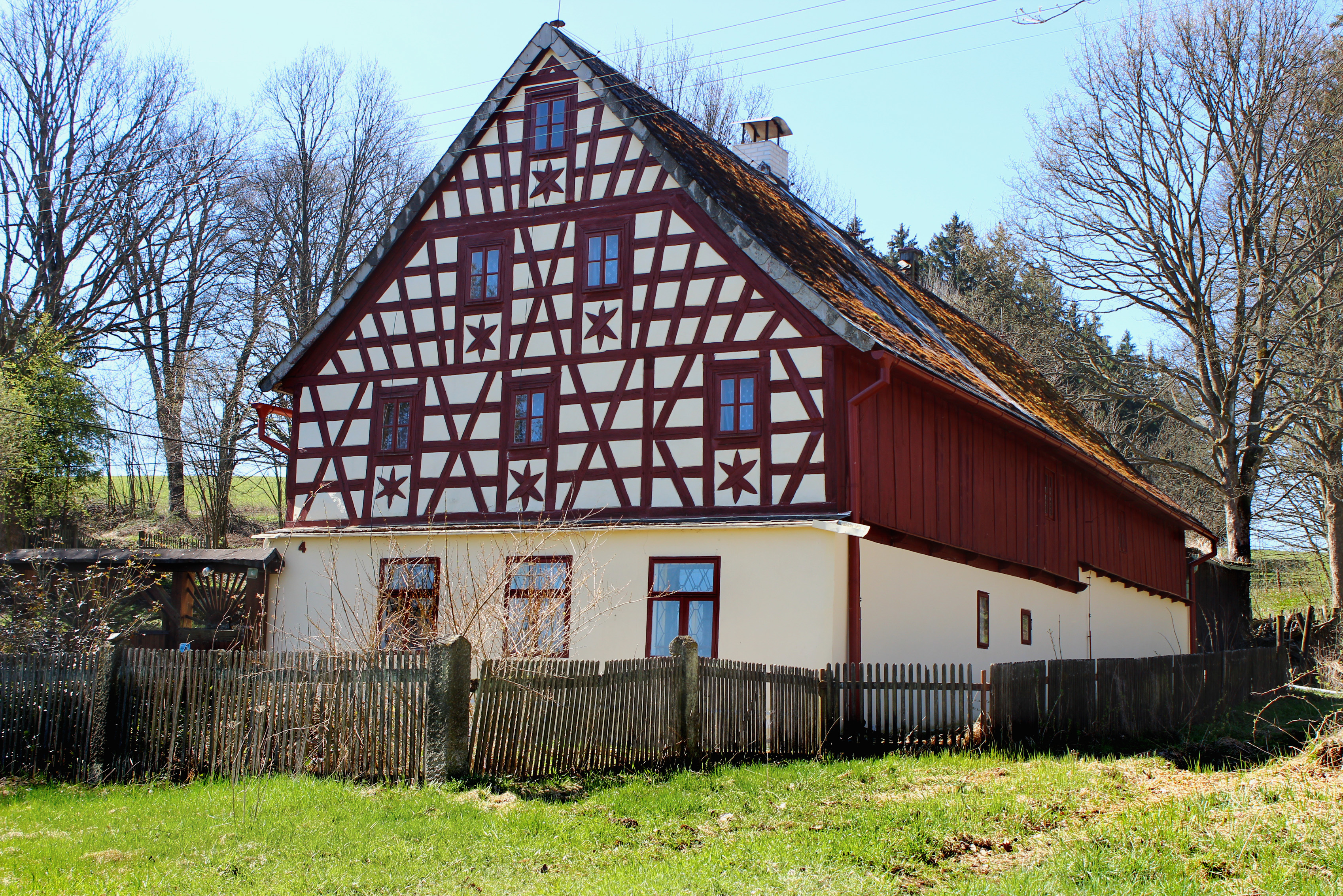 Common in Číhaná, part of Teplá, Czech Republic